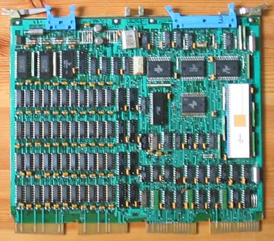 The CPU of a Soviet DVK-3 minicomputer, also used in the Elektronika MS-1201.03. Both were clones of the highly popular PDP-11.